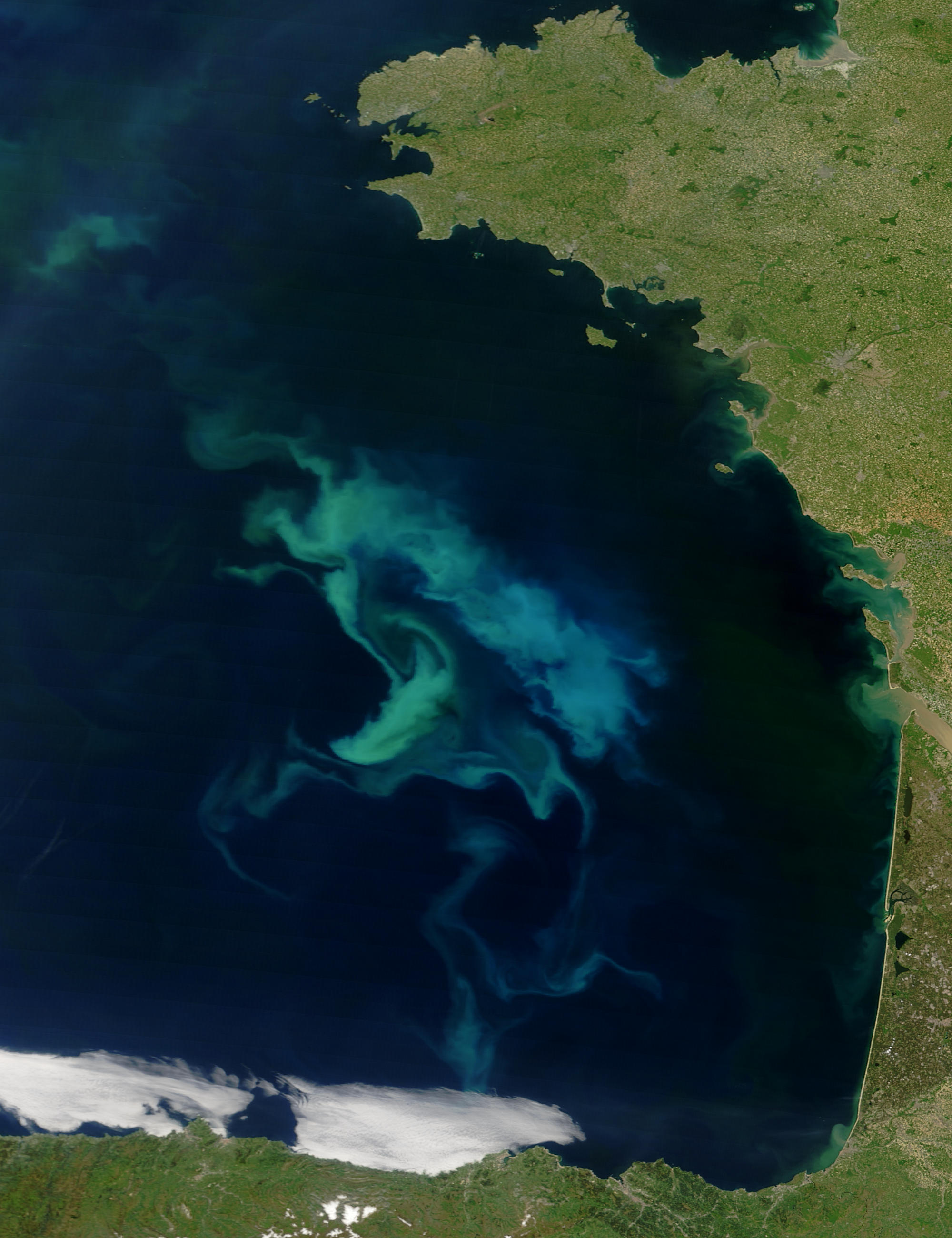 Phytoplankton bloom in the Bay of Biscay. Satellite: Terra (EOS AM-1). Pixel size: 250m.